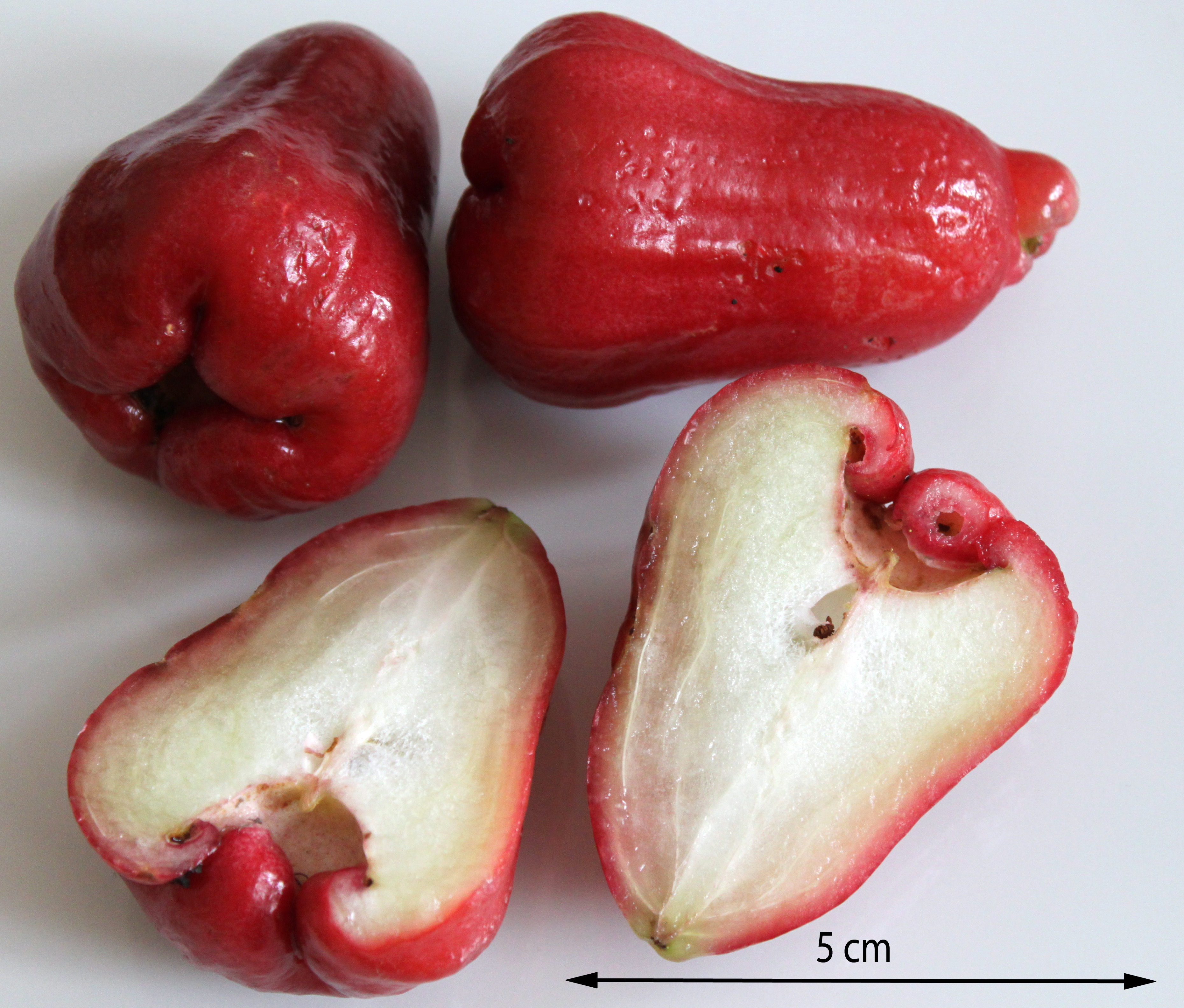 wax apples / java apples (Syzygium samarangense), bought at Dong Xuan Center in Berlin